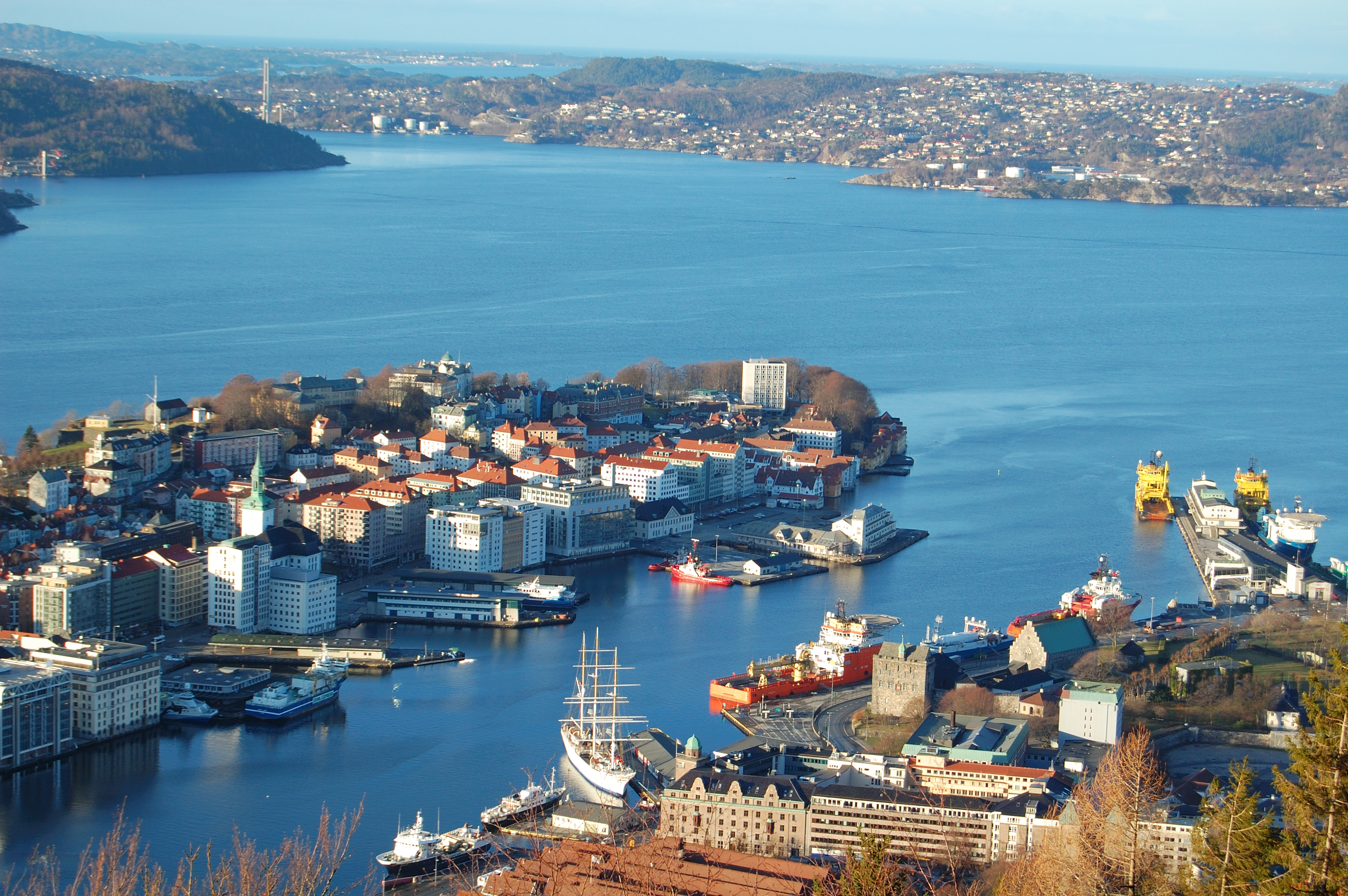 View of Bergen from the Rundemanen mountain.